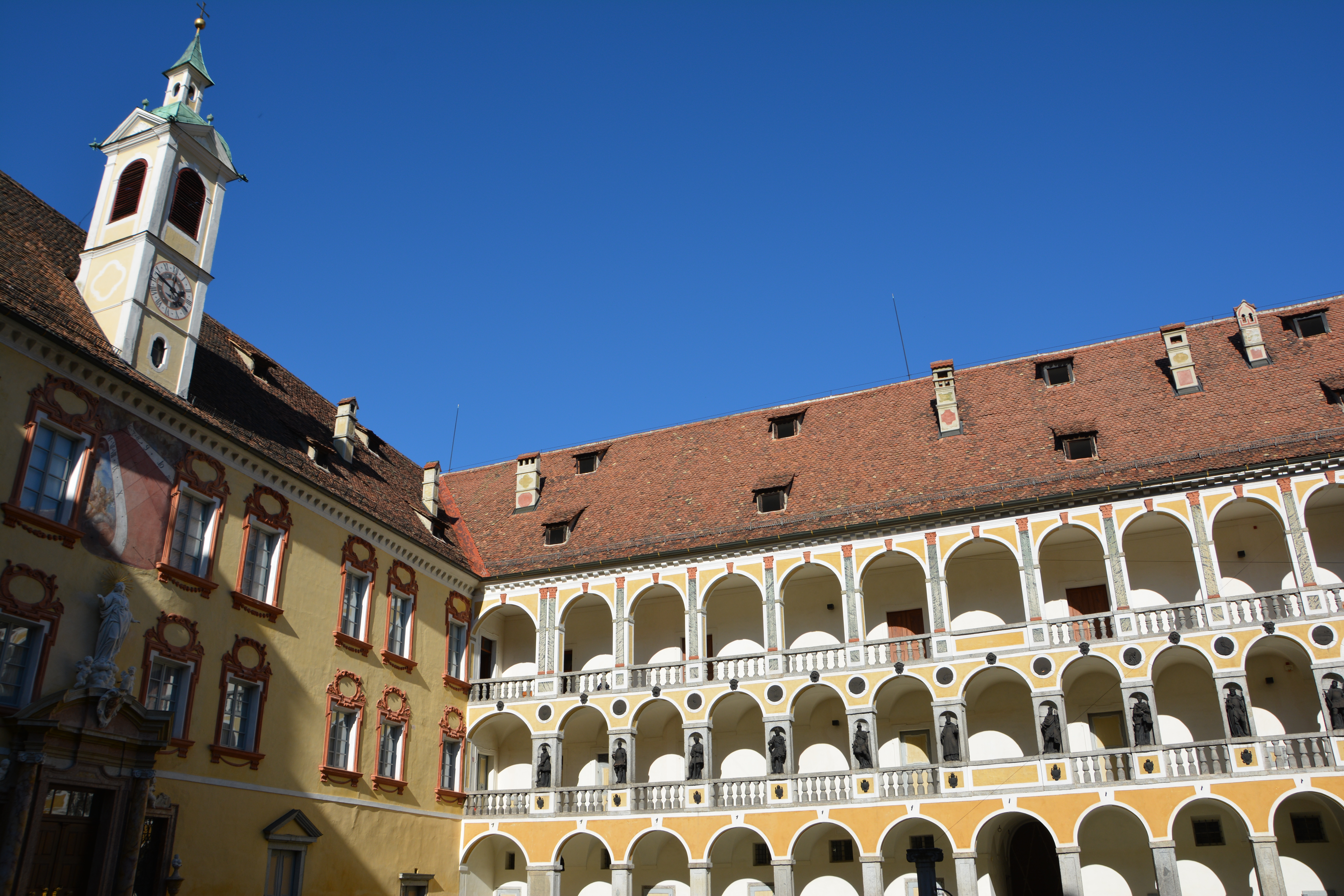 Arcaded courtyard of the Hofburg in Brixen, South Tyrol